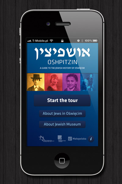 Oshpitzin APP